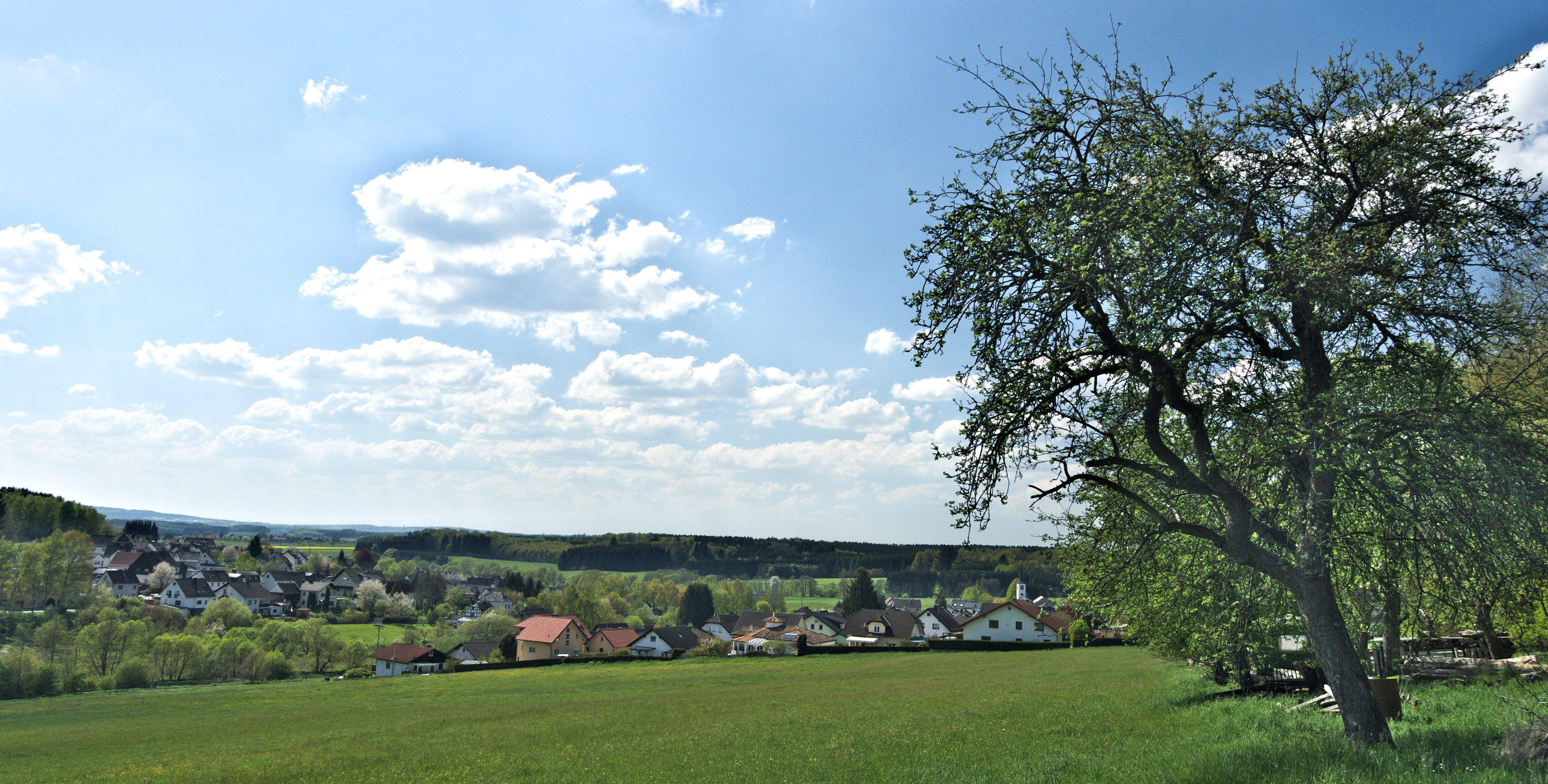 View from east over Freirachdorf village, Westerwald, Germany.